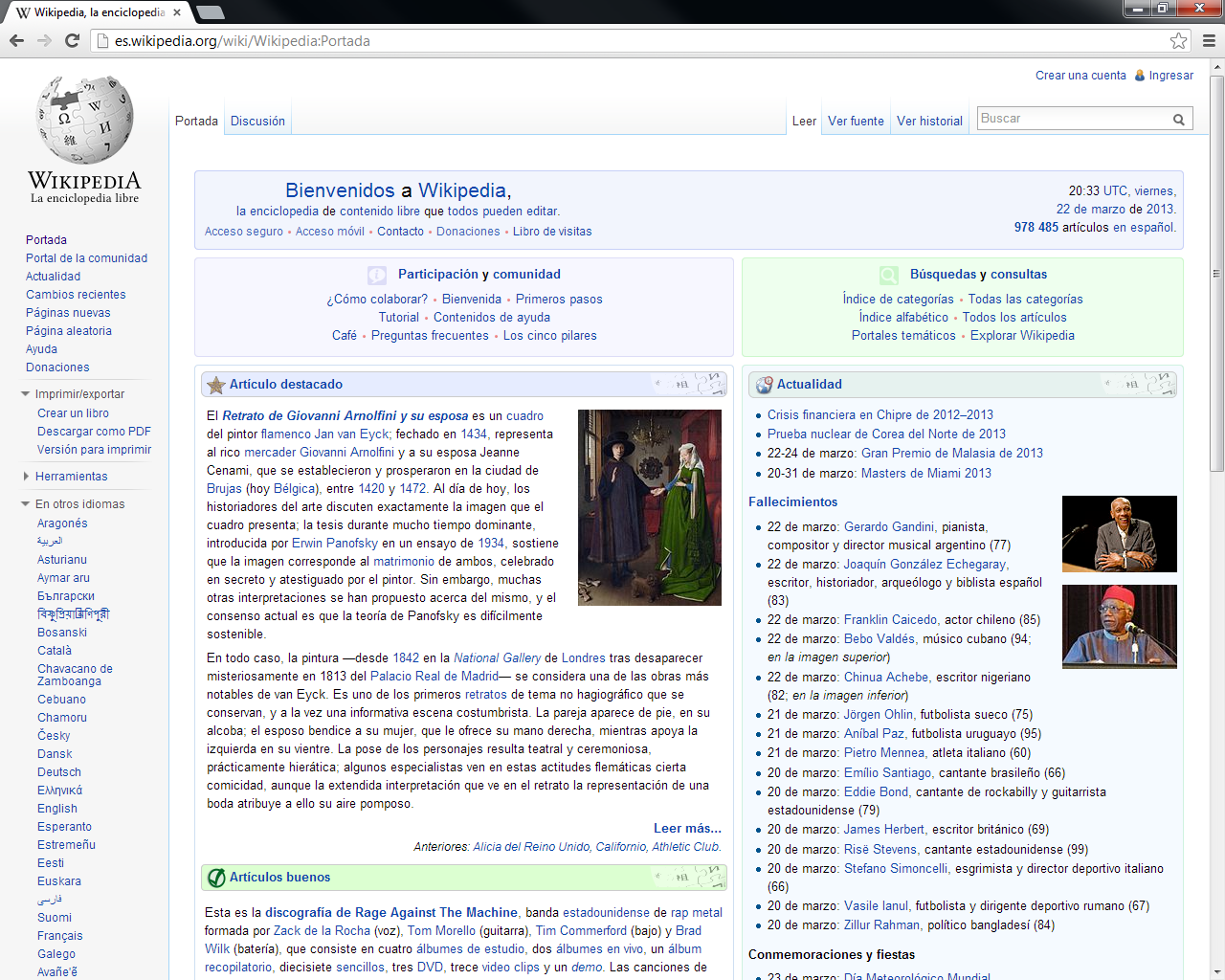 Screenshot of Google Chrome 25 showing spanish Wikipedia.